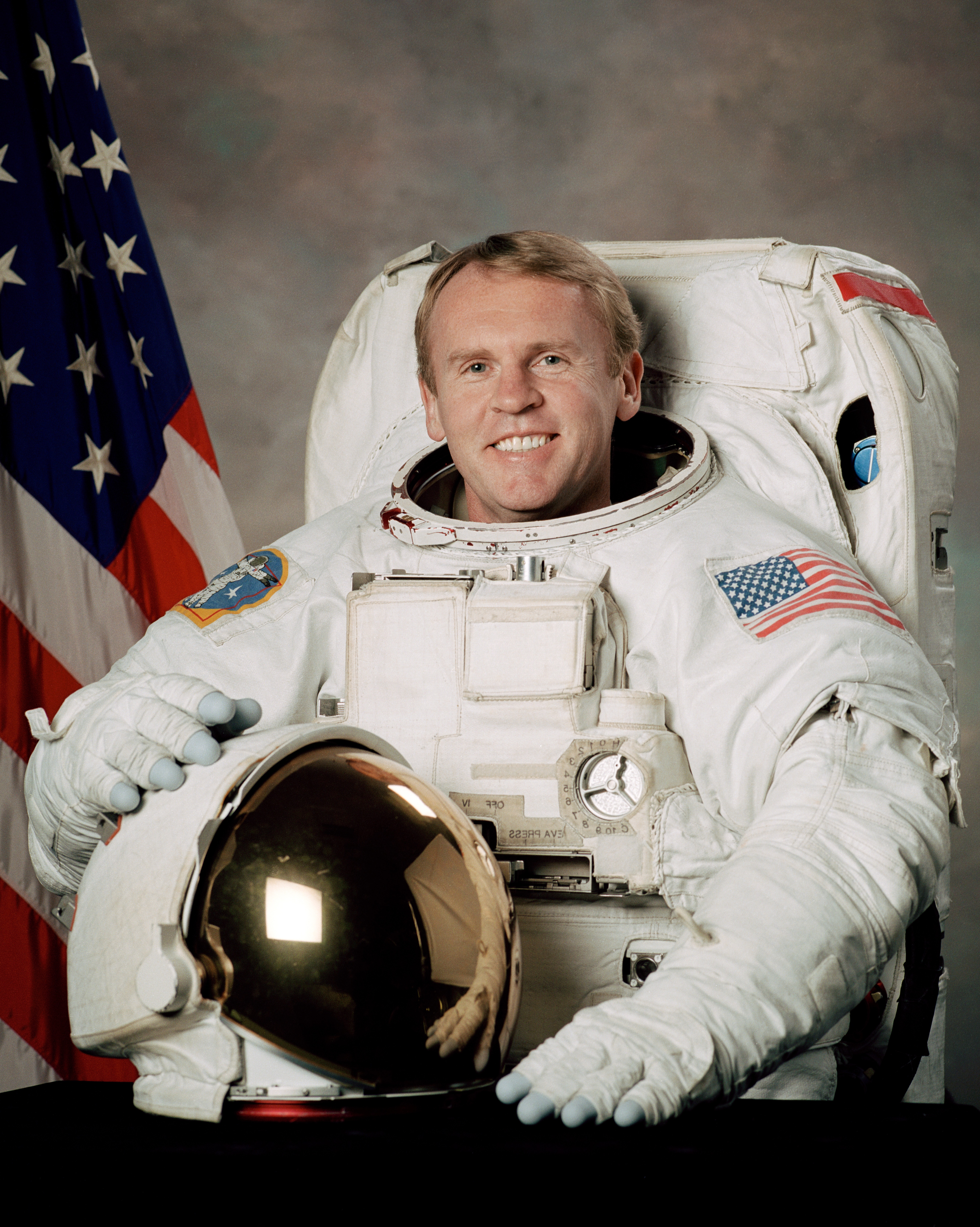 Astronaut Andy Thomas (Australian b1951)